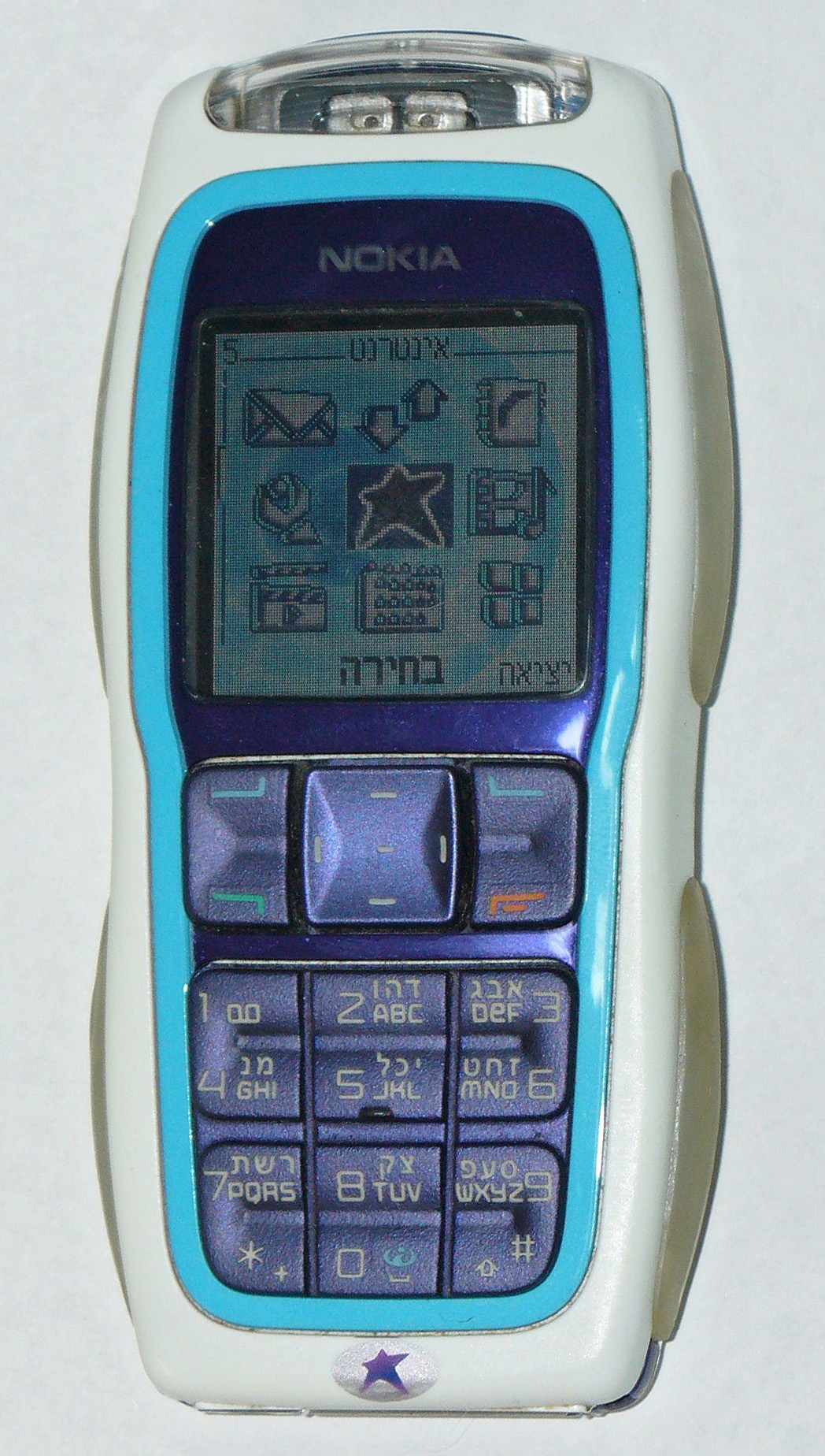 Nokia 3220 on a white paper, with Hebrew interface